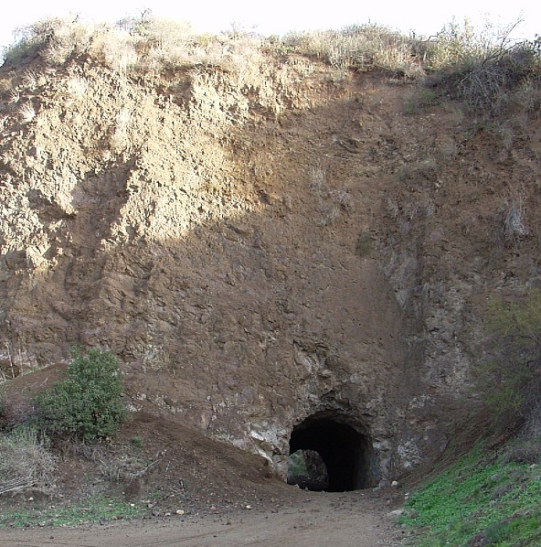 Bronson Cave West Portal. Photo by Mark S. Cramer, MD, FAAFP - self, no URL, for Wikipedia information and requires attribution for any use or derivatives under Creative Commons Attribution ShareAlike 3.0 United States.